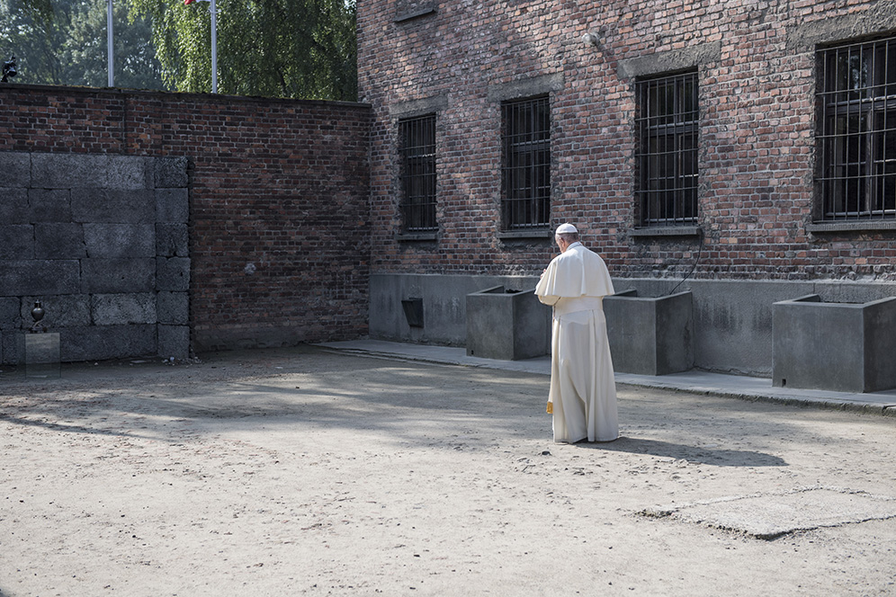 2016.07.29, Oświęcim | Premier Beata Szydło powitała w piątek Ojca Świętego Franciszka na terenie byłego obozu Auschwitz-Birkenau. Premier i papież wspólną modlitwą i zapaleniem zniczy uczcili pamięć ofiar Holokaustu. fot. P. Tracz / KPRM